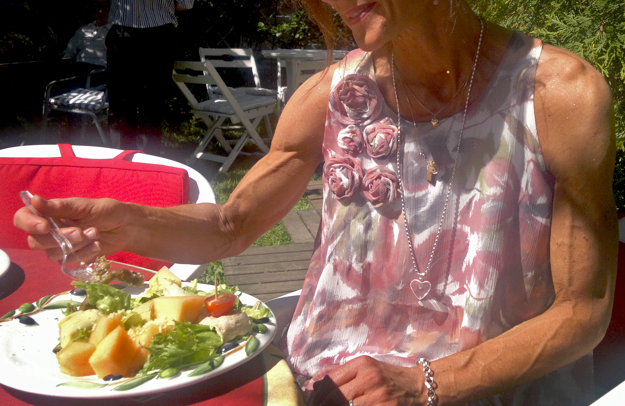 Fit woman enjoying salad in the summer.